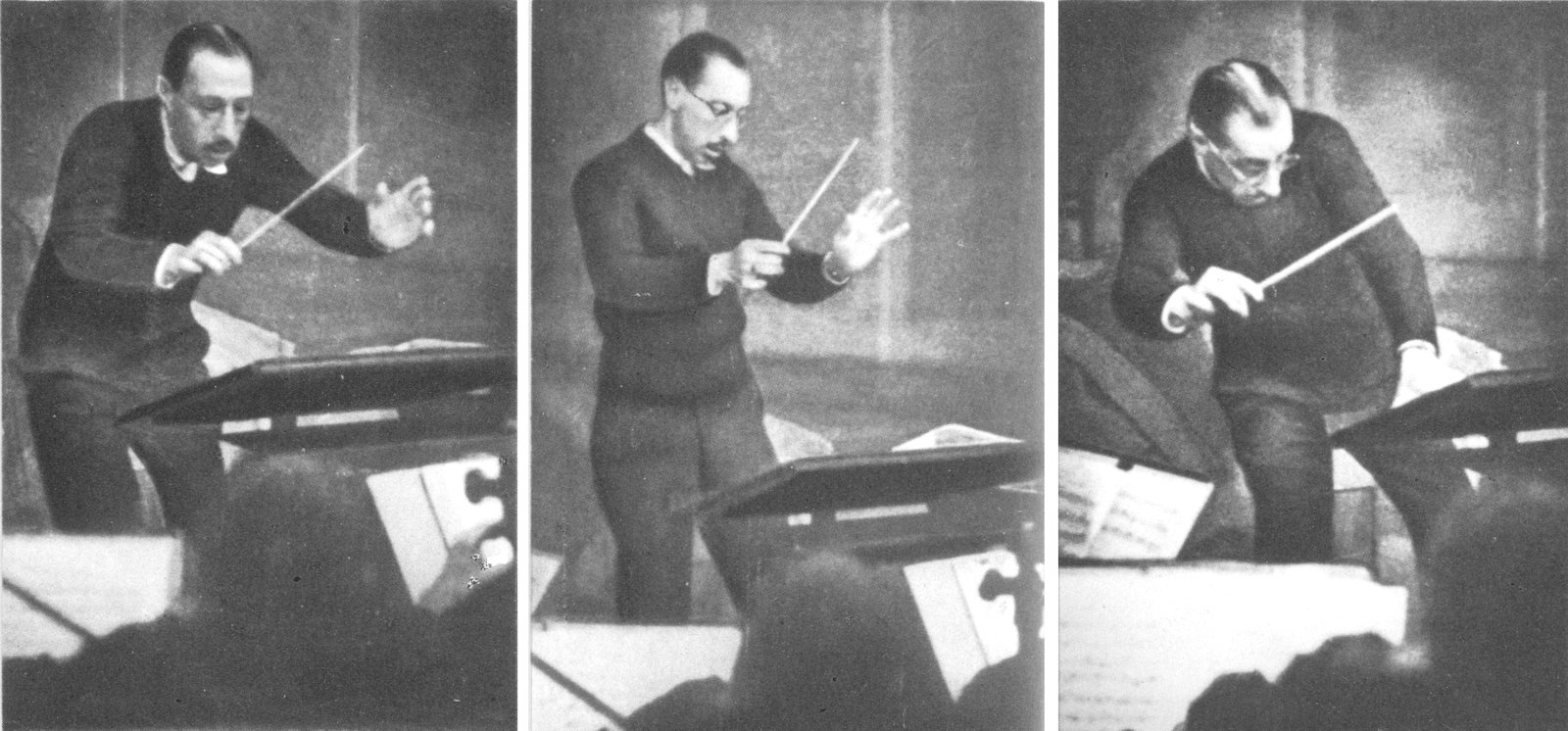 Stravinsky_Igor,_Germany